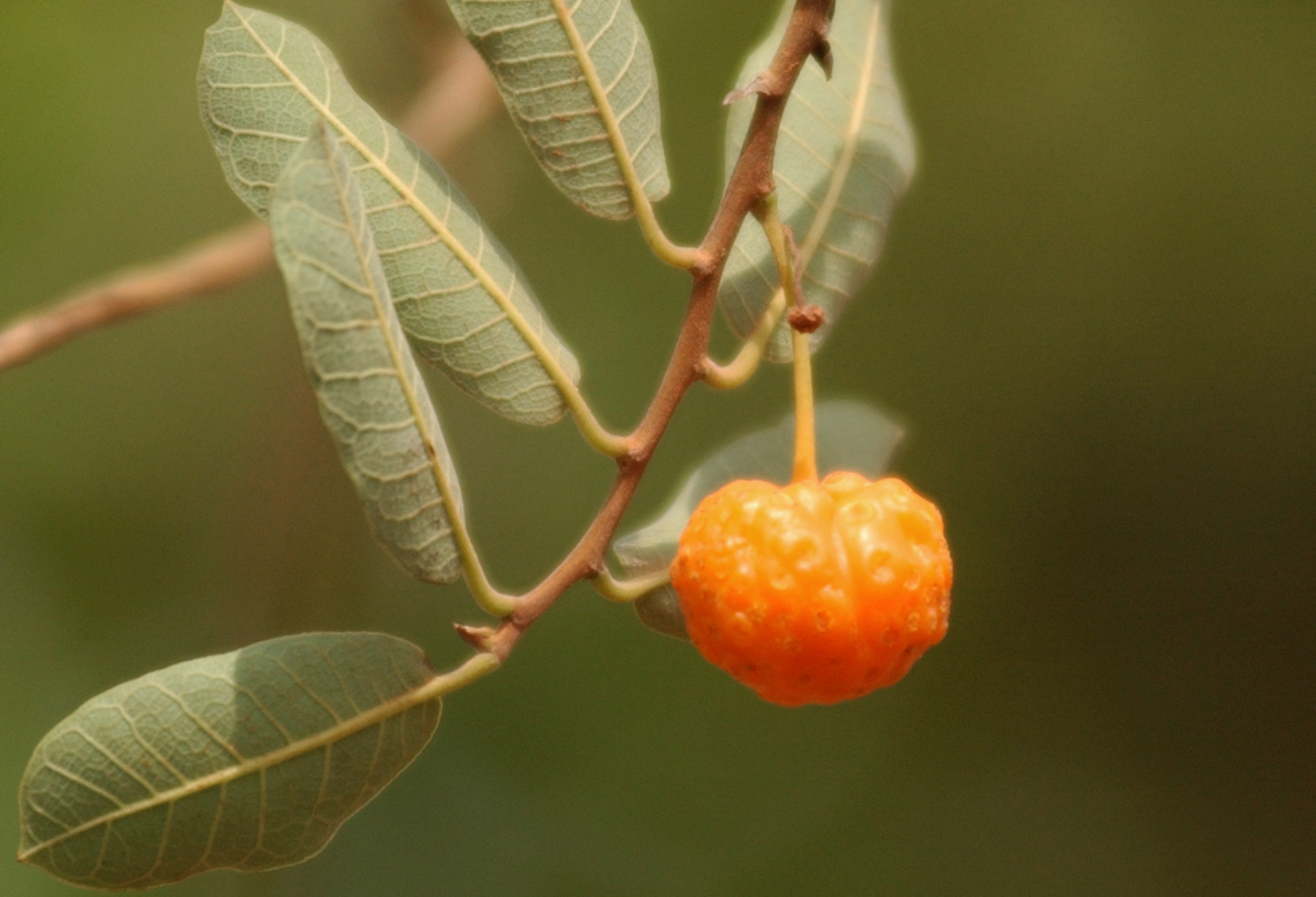 Mamacadela fruit (Brosimum gaudichaudii), a tree from Brazil